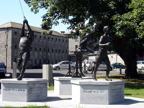 Statues in Nenagh, Co Tipperary of three Olympic Gold Medalists from or with Nenagh connections. They are (left to right) Matt McGrath, Bob Tisdall and Johnny Hayes.